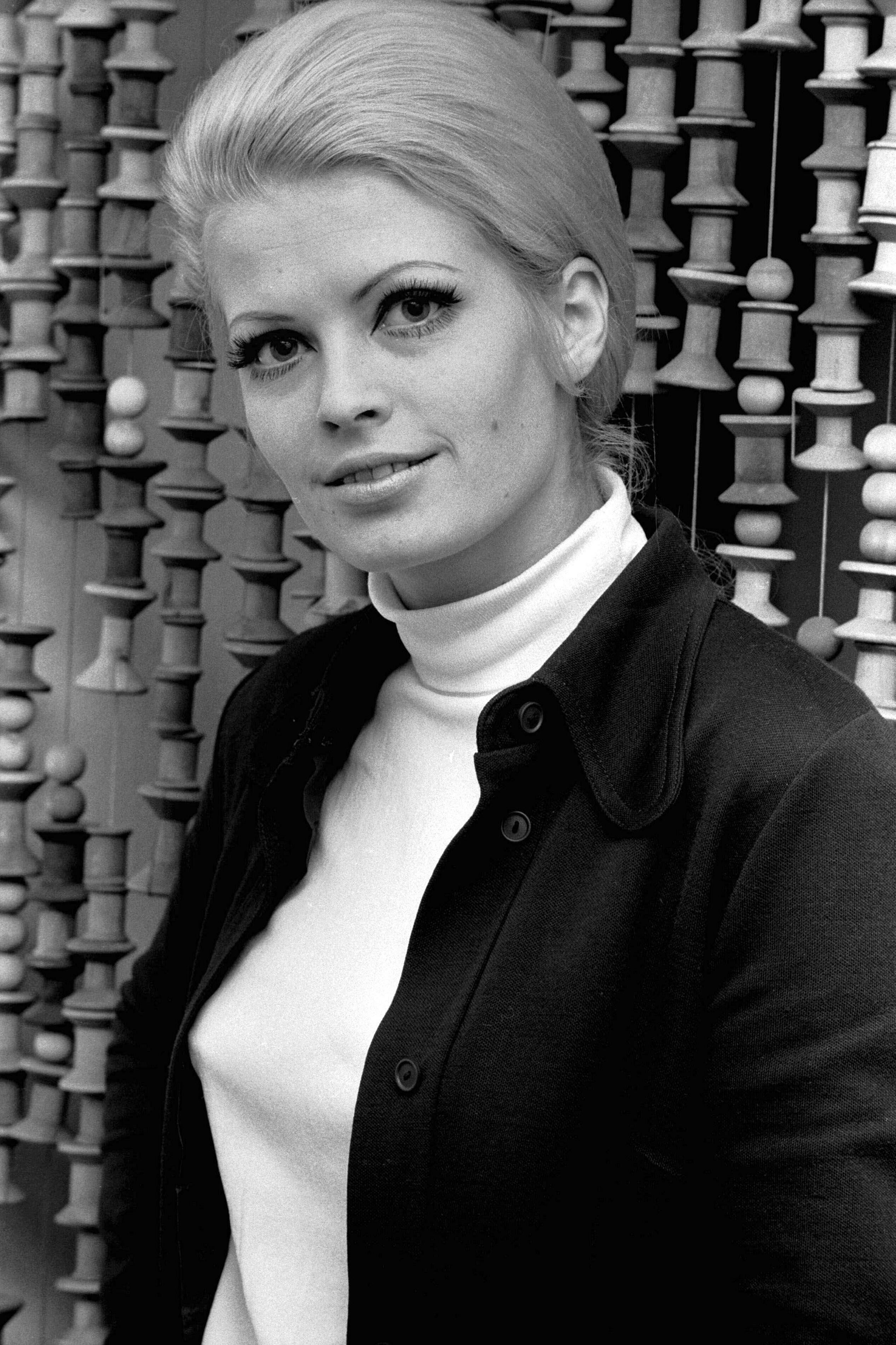 Photograph of Leena Brusiin, Miss Finland winner of 1968.